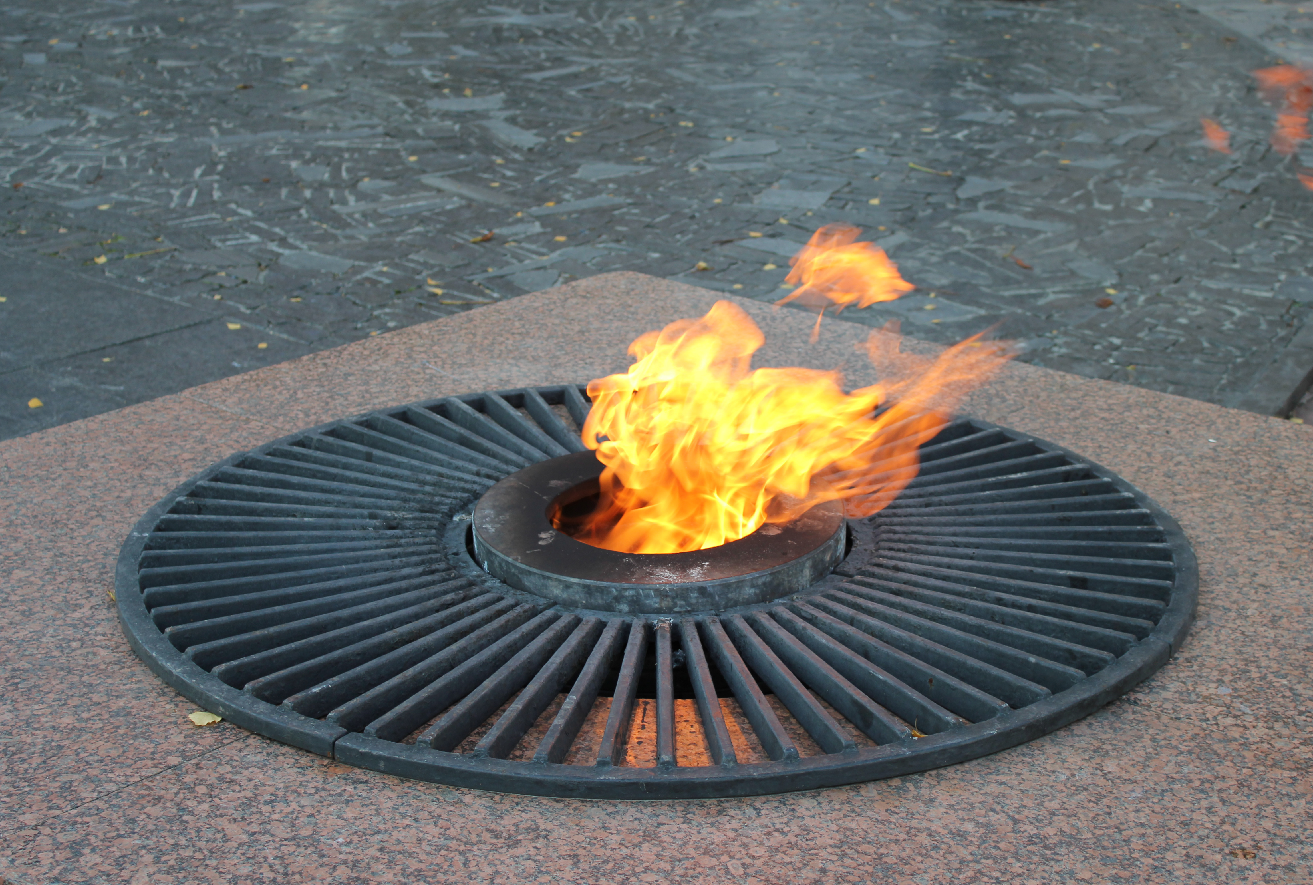 Eternal flame. Memorial of Glory. Ukraine, Vinnitsa.